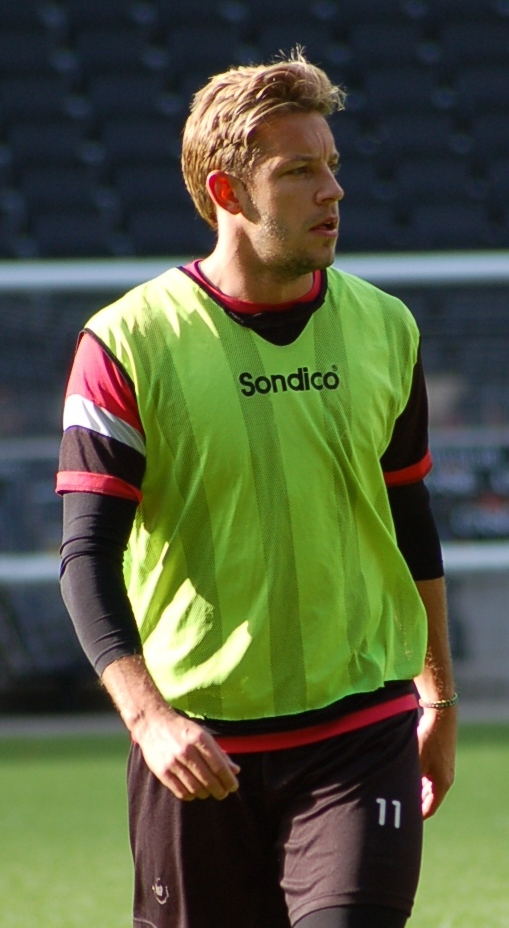 Alan Smith during MK Dons open training on 29 October 2013.